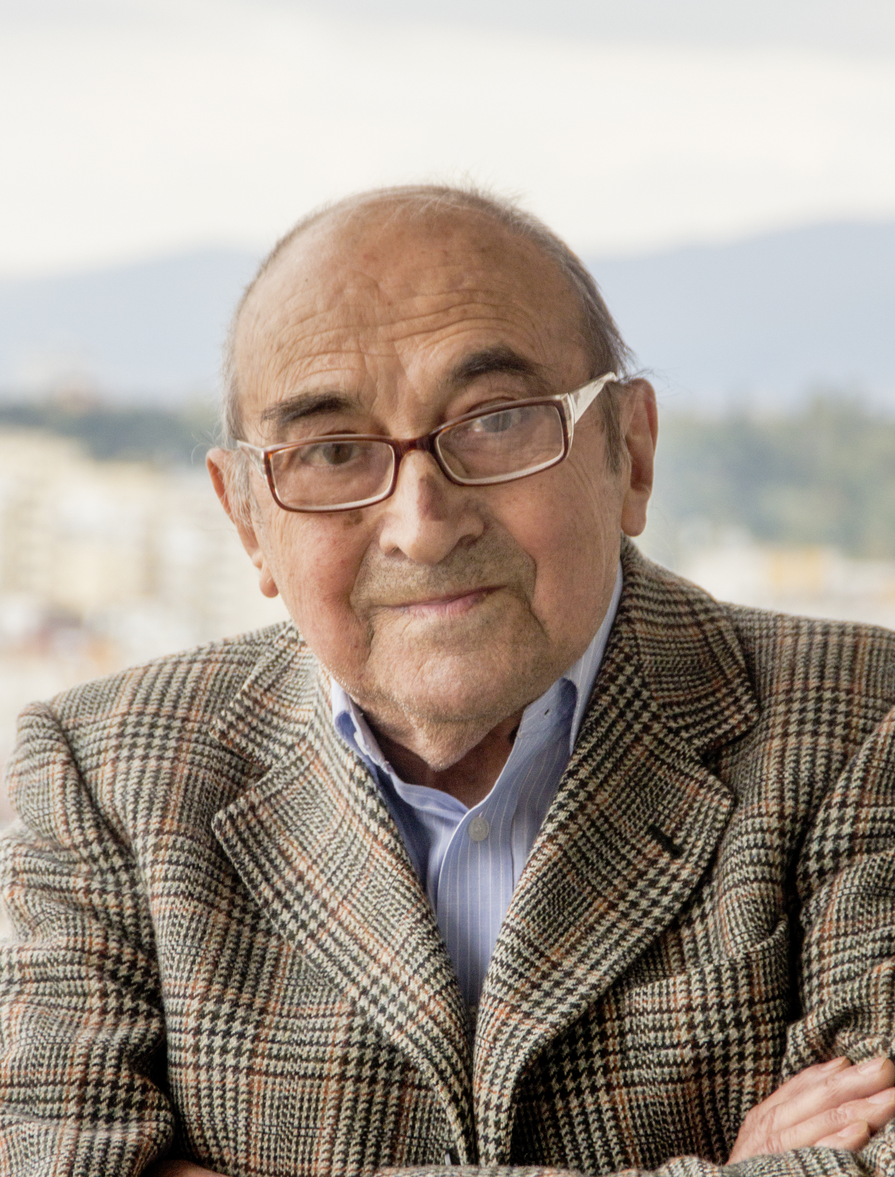 Ivan Tsonev portrait